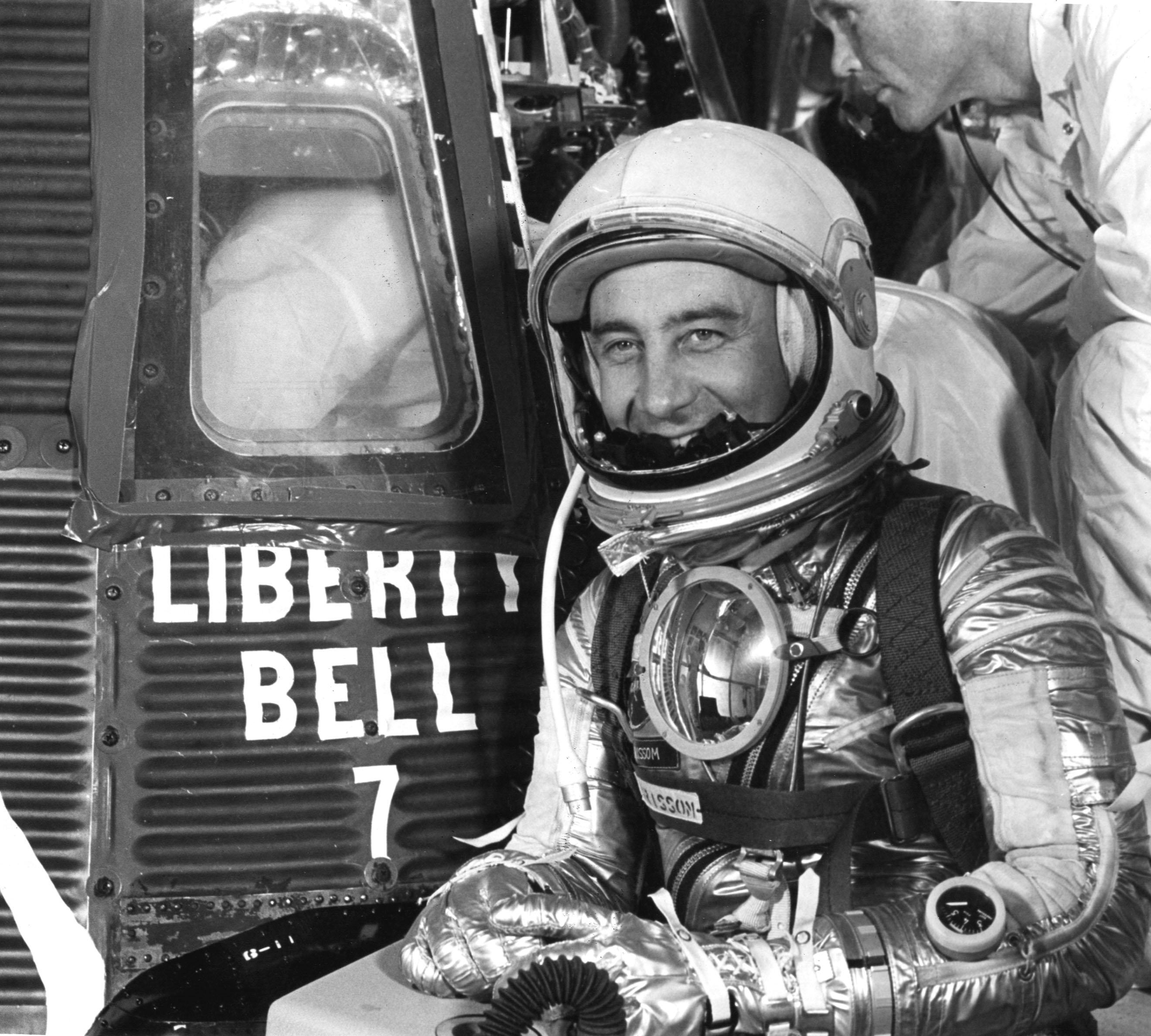 Astronaut Virgil I. Grissom prepares to enter the Liberty Bell 7 spacecraft prior to his successful 5,310 mph (8,550 km/h) space ride. He reached an altitude of 118 miles (190 km). This was the second man-in-space flight for the U.S. in its series of suborbital flights by the National Aeronautics and Space Administration.